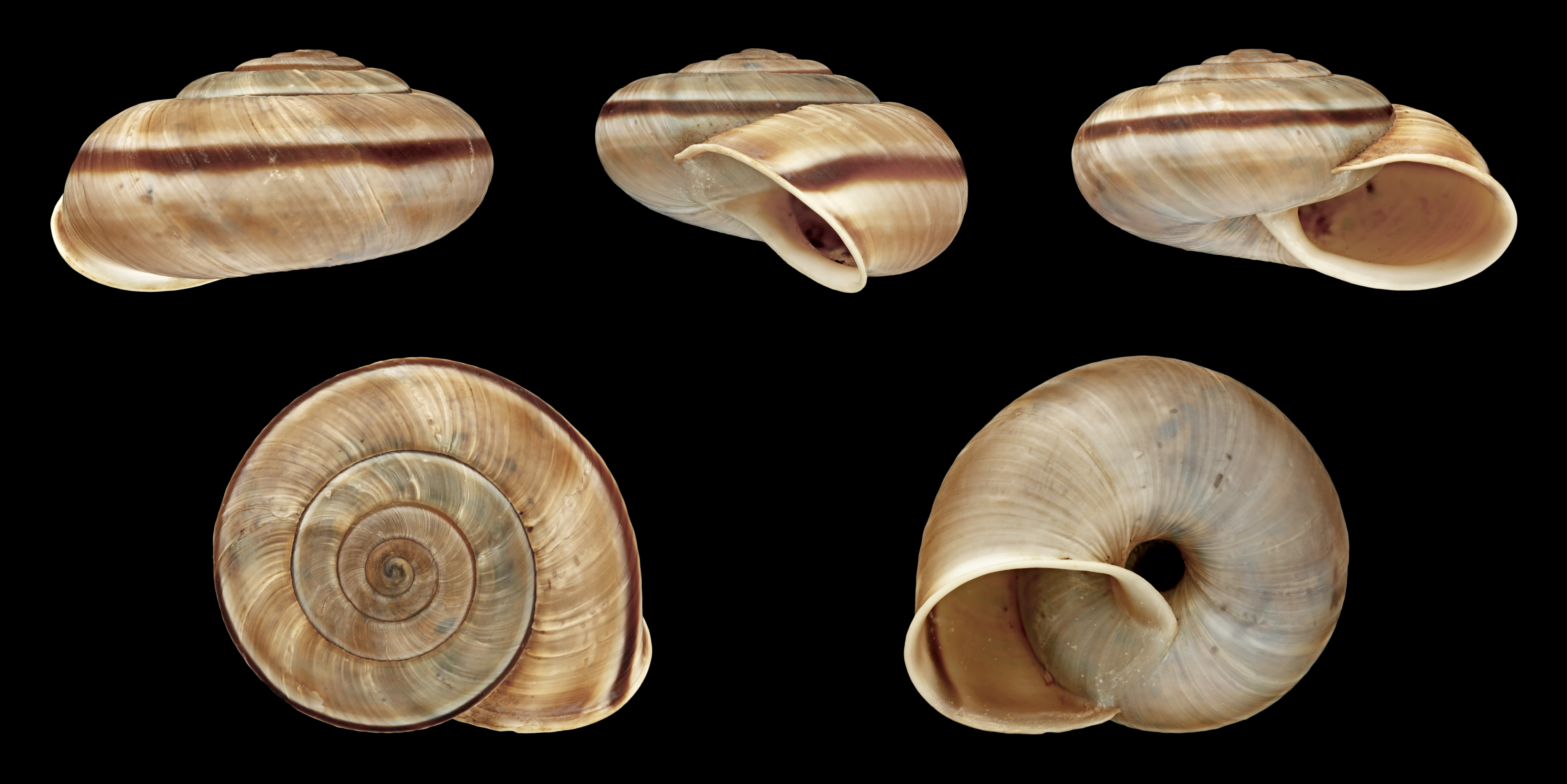 Diameter 2.5 cm; Originating from a wall at the south bank of the Lago di Tenno, Trentino, Italy; Shell of own collection, therefore not geocoded.